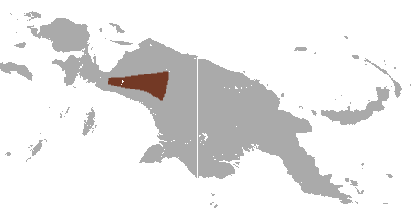 Weyland Ringtail Possum (Pseudochirulus caroli) range